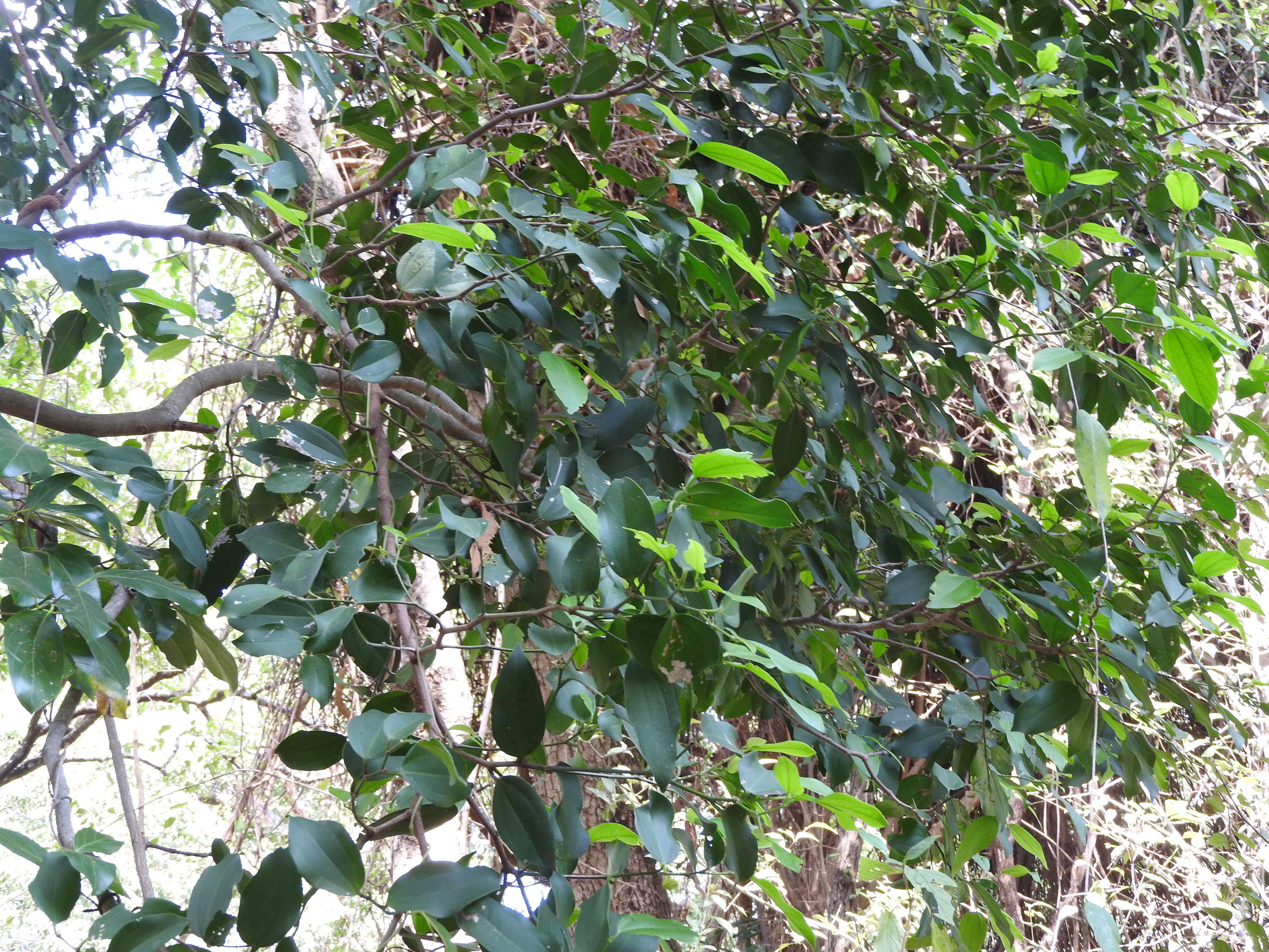 Cannabaceae-vellaithovarai;shrub or small tree,flowers yellow.